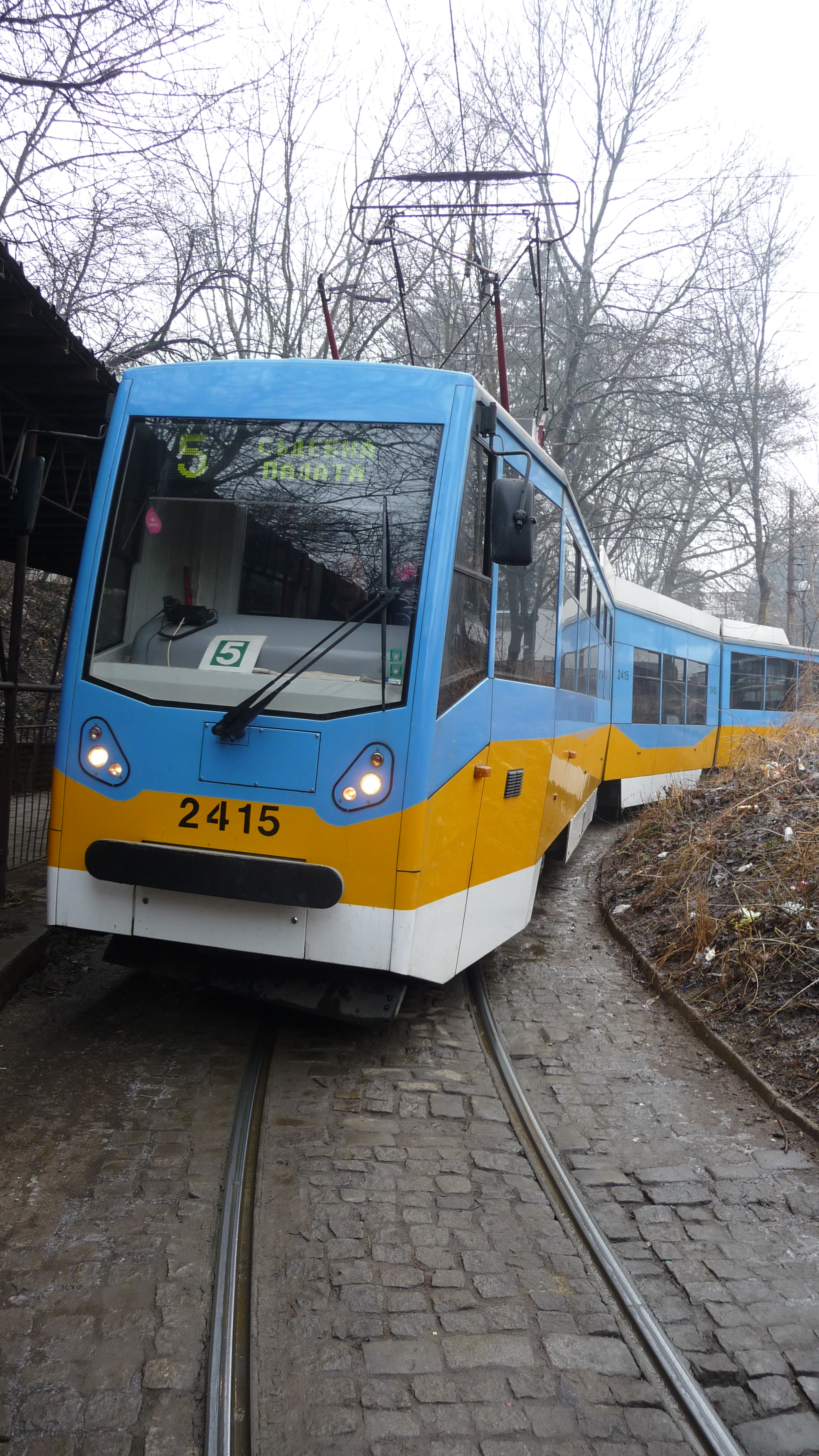 Sofia tram of type "Т8М-700IT" (IT for Inekon Trams) at Knyajevo station. This type of tram was made by taking a 2-section, 6-axle type T6M700 tram (built in Sofia) and adding an Inekon-supplied low-floor centre section and upgraded electrical equipment.